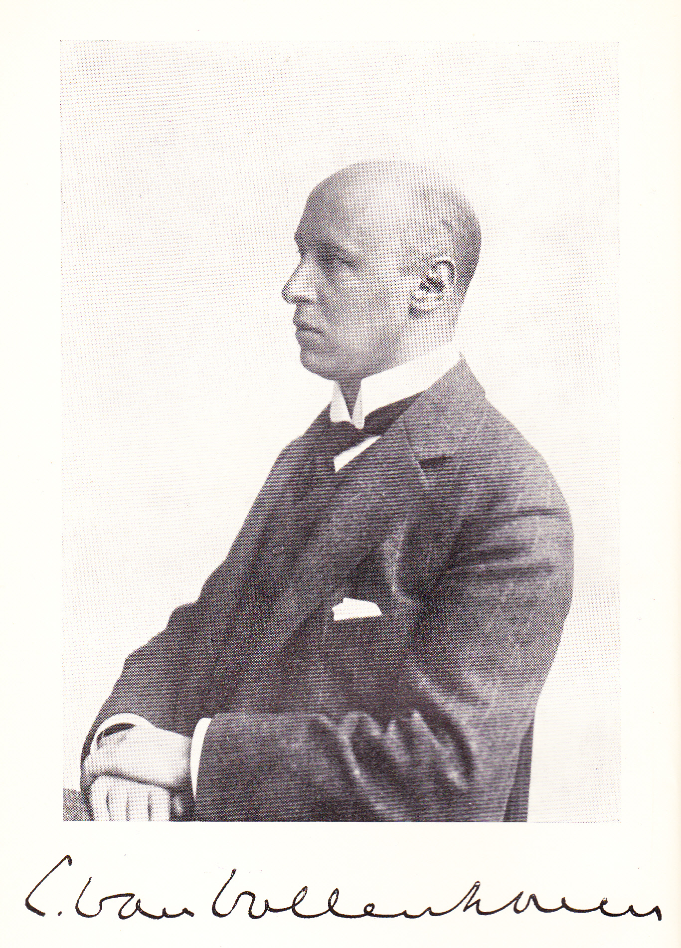 Cornelis van Vollenhoven during his time as rector of Leiden University